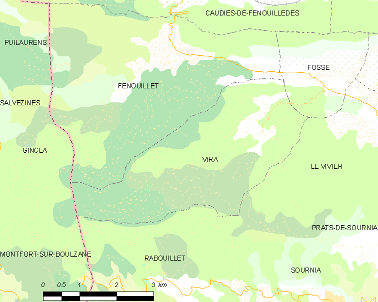 Map of French municipality